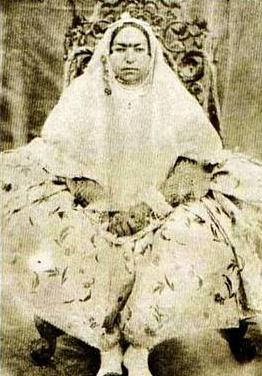 Mahd od Owlia